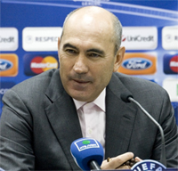 Kurban Berdyyev before Champions League match against Barcelona